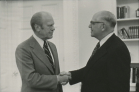 The photo contact sheet, identified as B1710 by the White House Photographic Office (WHPO), is housed at the Gerald R. Ford Presidential Library, a branch of the National Archives and Records Administration (NARA). This file is a 200 dpi photo contact sheet having images from roll of film B1710 of the August 9, 1974 - January 20, 1977 Gerald R. Ford White House Photographic Office Series A0001-A9999 and B0001-B2886 photographs. The date on the photo contact sheet is the date the roll of film was processed, not necessarily the date the photographs were taken. See table below for additional details.